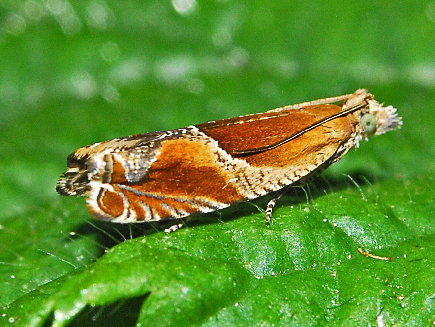 Ancylis obtusana. Faiallo Pass. Genova, Italy